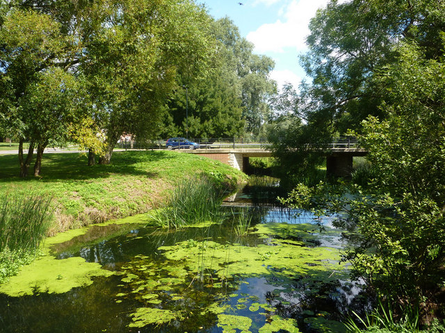 River Brett at Hadleigh Looking towards the road bridge from a footbridge linking the town to the Babergh Council Offices for pedestrians.